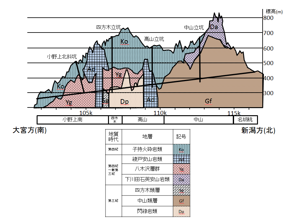 Geological map of Nakayama tunnel Joetsu shinkansen, as of 1976